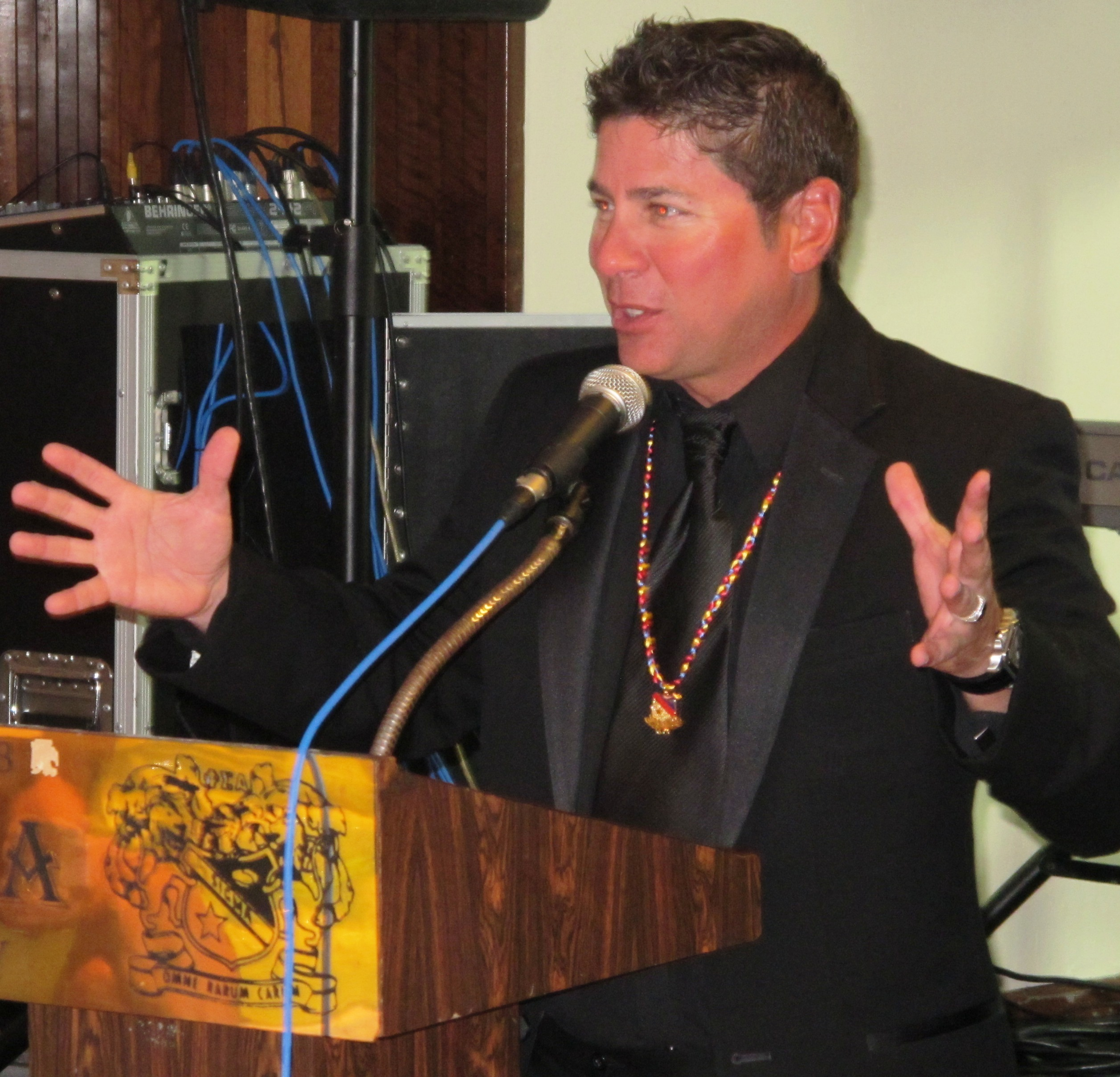 Raymond Arrieta at Sigma Convencion